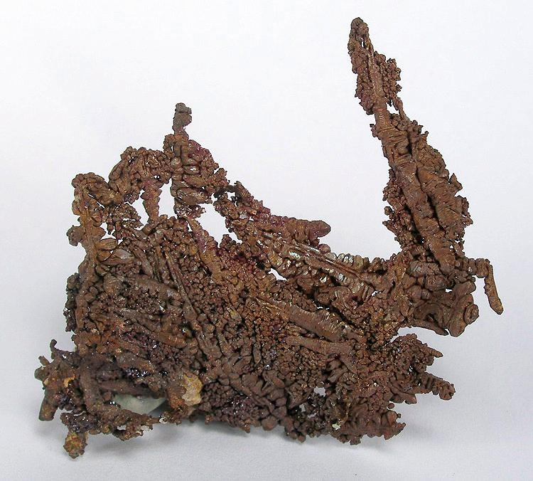 Copper, Cuprite Locality: Ray Mine, Scott Mountain area, Mineral Creek District (Ray District), Dripping Spring Mts, Pinal County, Arizona, USA (Locality at ) Size: 4.5 x 4.2 x 0.8 cm. An amazingly sculptural copper with cuprite specimen from the Ray Mine. The spinel-twinned portion at the right is 3.2 cm. Very sharp spinel-twins and tetrahexahedral copper crystals with a sparkly cuprite, overcoated patina comprise this very interesting piece. This piece comes from a recently uncovered stash from the well-known copper mine, as the specimens were collected in 1959.